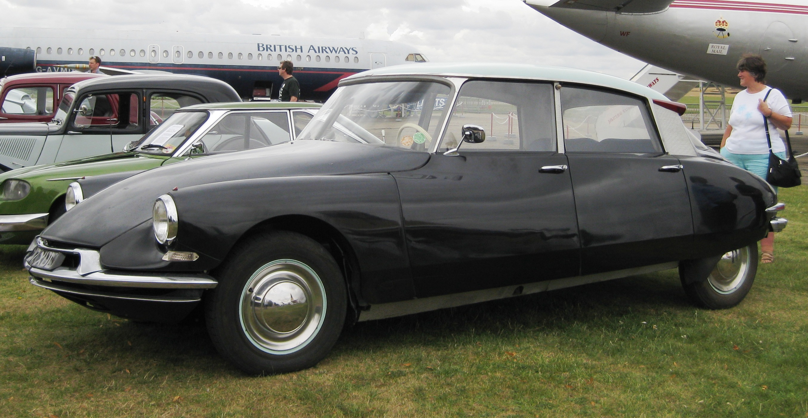 Citroen DS 19 built before the front was complicated by additional headlights.